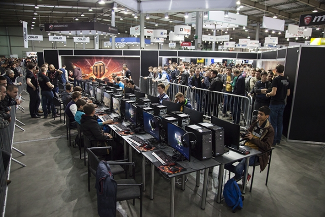 CEE Expo 2016